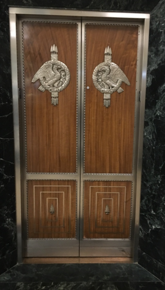 Two doors inside the Chrysler Building, Detroit